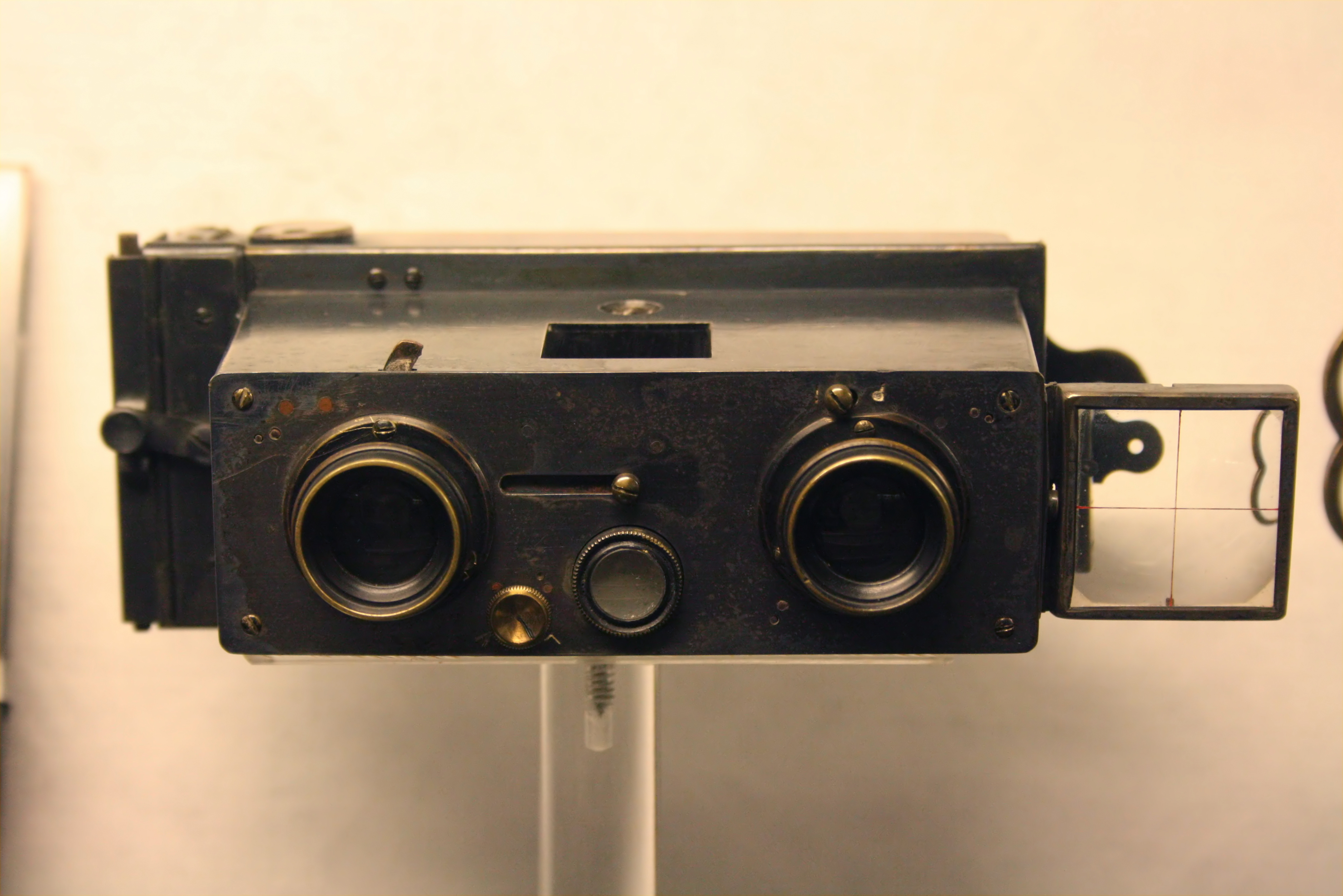 Stereo camera from Jules Richard 1890-1950 at the French Museum of Photography in Bièvres, Essonne, France. {Commonist